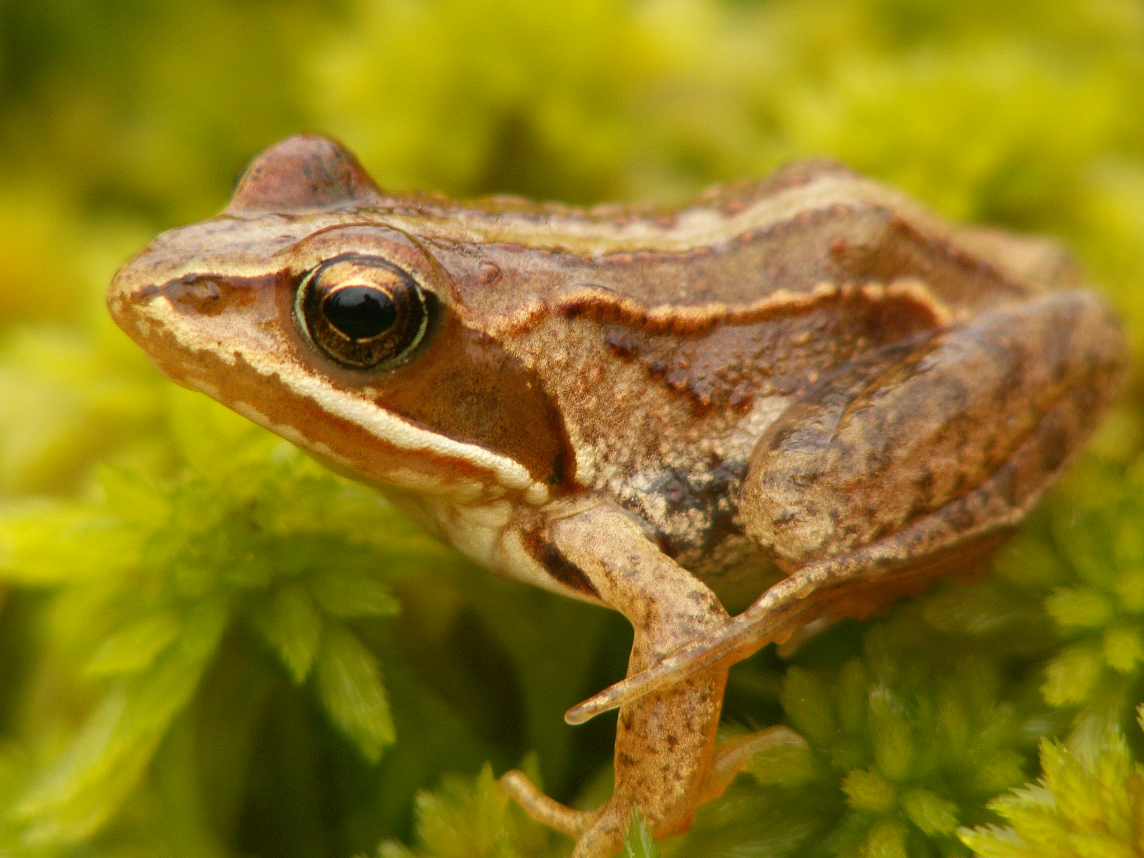 Rana arvalis on sphagnum (Drenthe, the Netherlands). The light stripe on the back is typical for most dutch specimens.